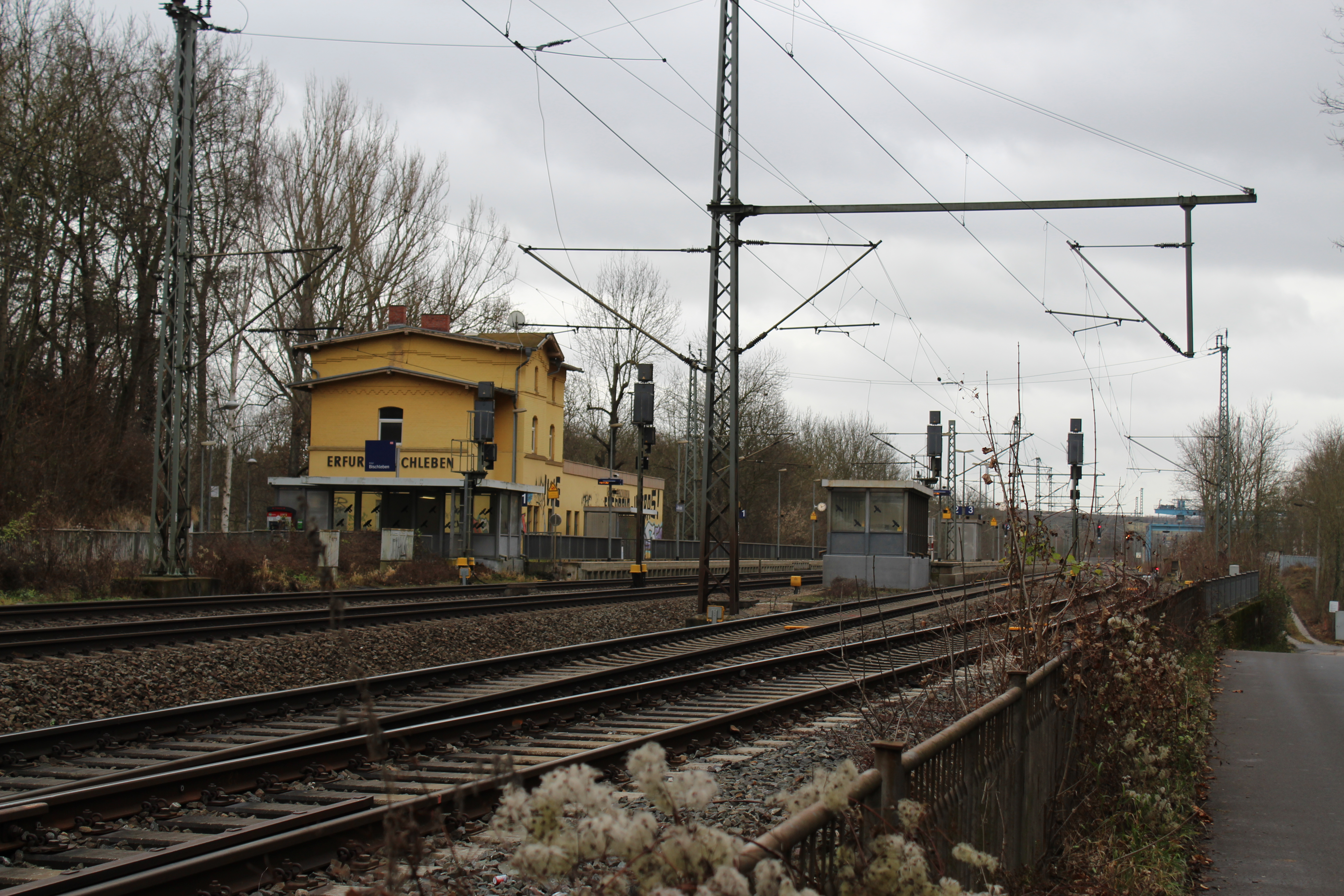 train station Erfurt-Bischleben